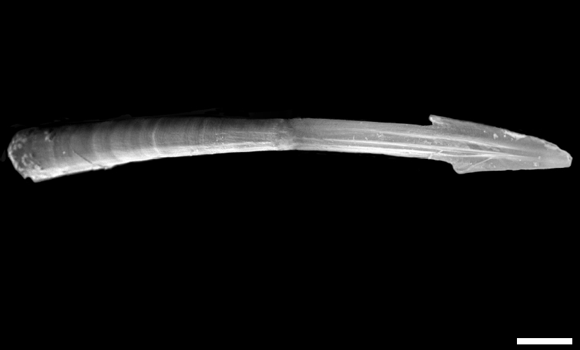 Scanning electron microscopic (SEM) image of lateral view of love-dart of Monachoides vicinus. the scale bar is 500 μm (0.5 mm).